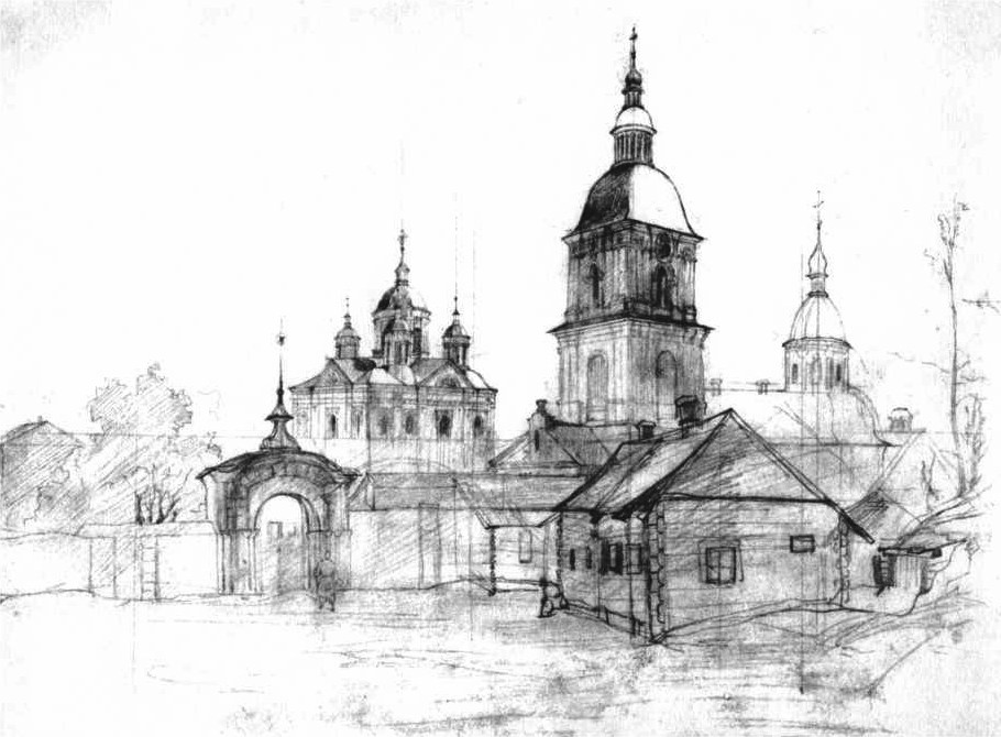 The historic Cossack Mezhyhirskyi Monastery near Kiev, Ukraine as drawn by famous painter and poet Taras Shevchenko.